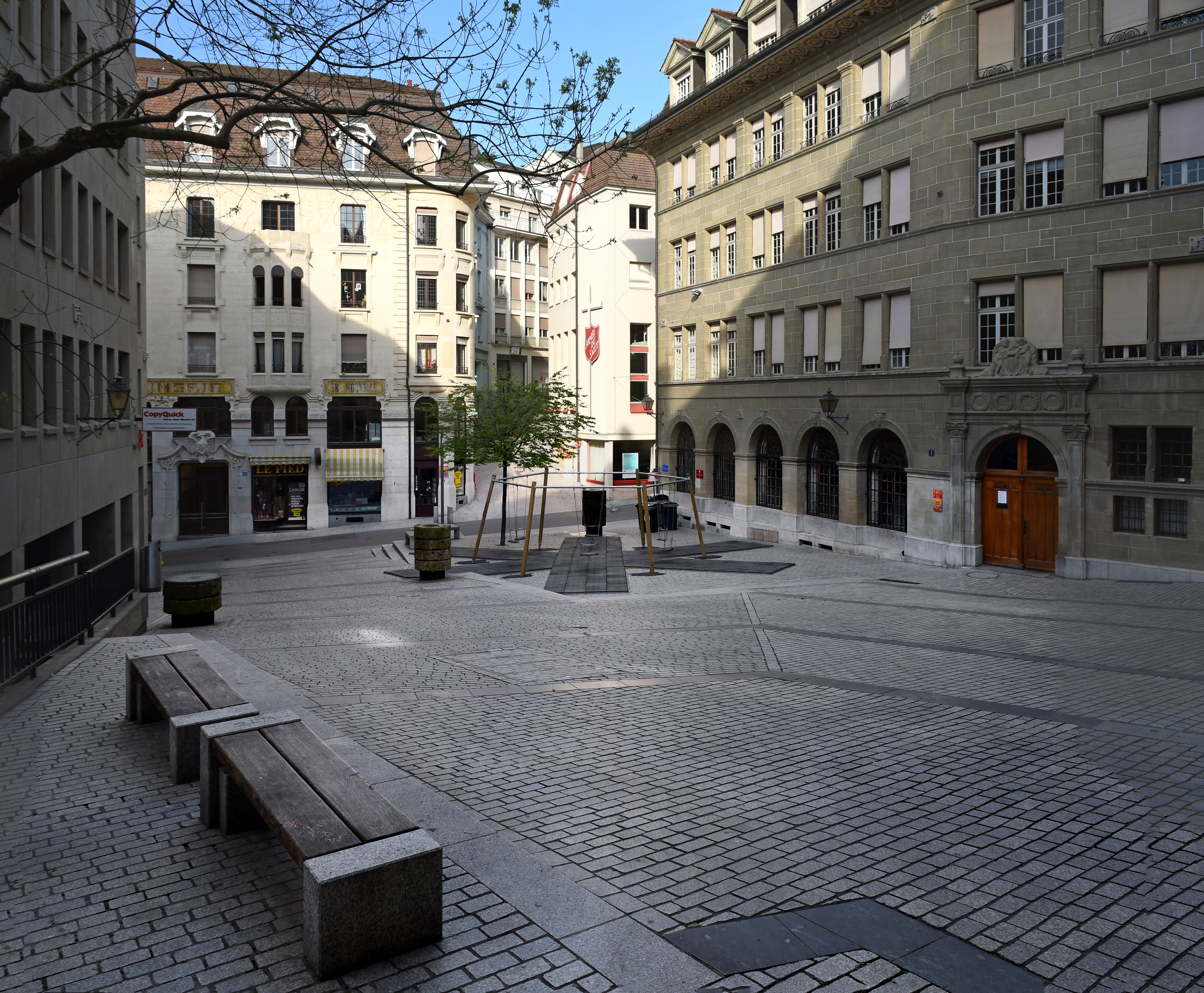 Place de la Louve, in Lausanne (Switzerland). The building on the right is the townhall's annexe.